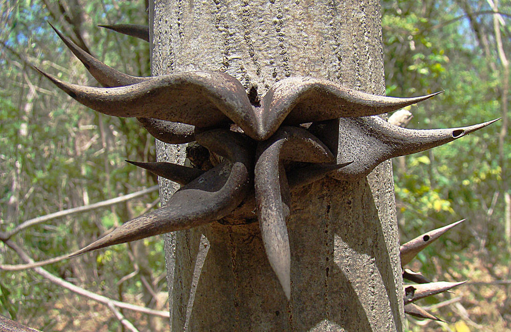 Giant thorns of Bull Horn Acacia, hollow to harbor protective ants. Photo from southwestern Nicaragua. In context at